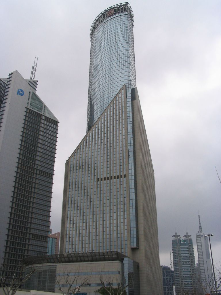 Bank of China Tower, Shanghai